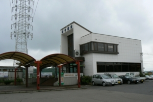 Akatsuki Gakuenmae Station